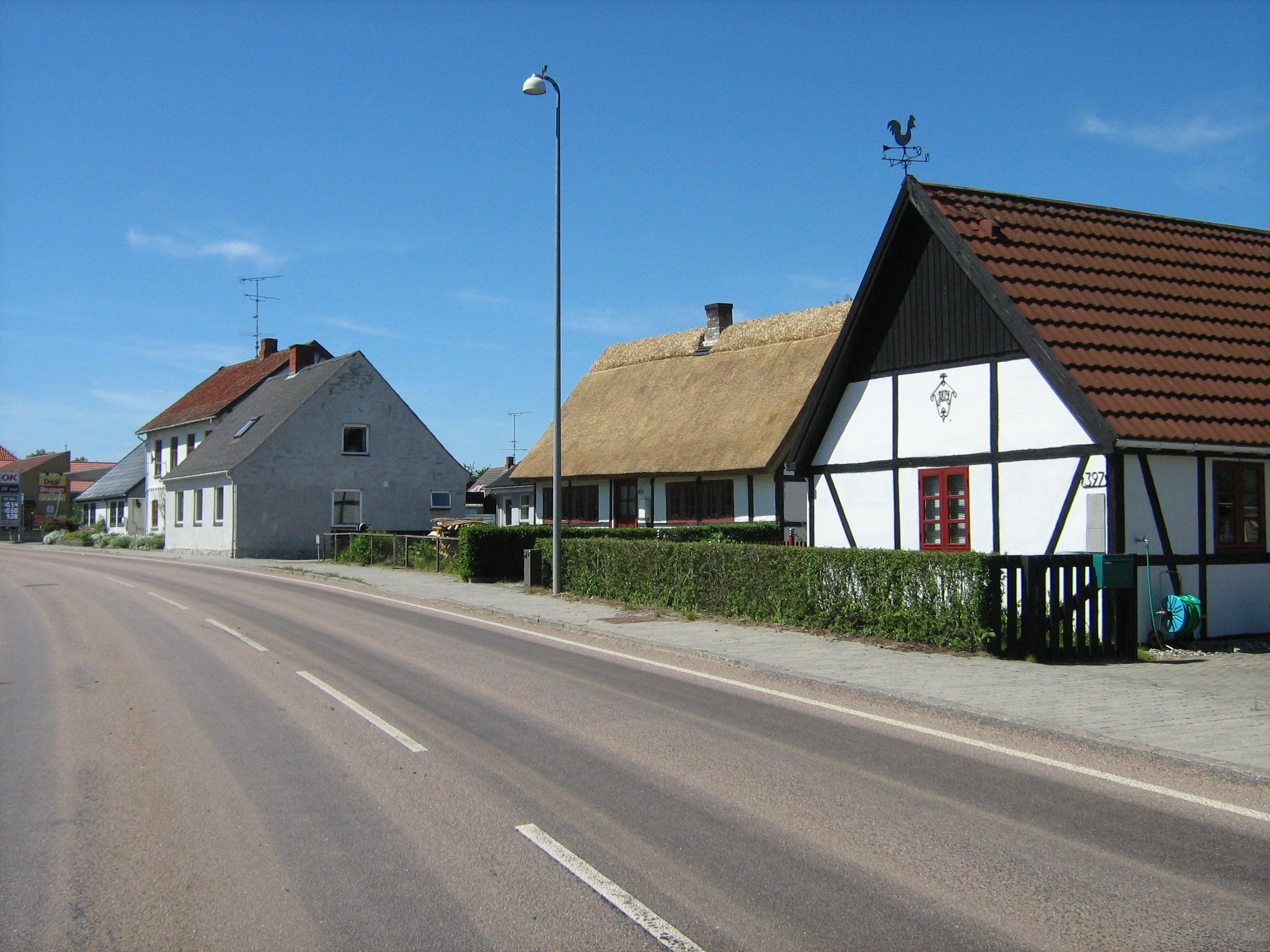 Borre, a village on the island of Møn in eastern Denmark. Entering the village from the east.